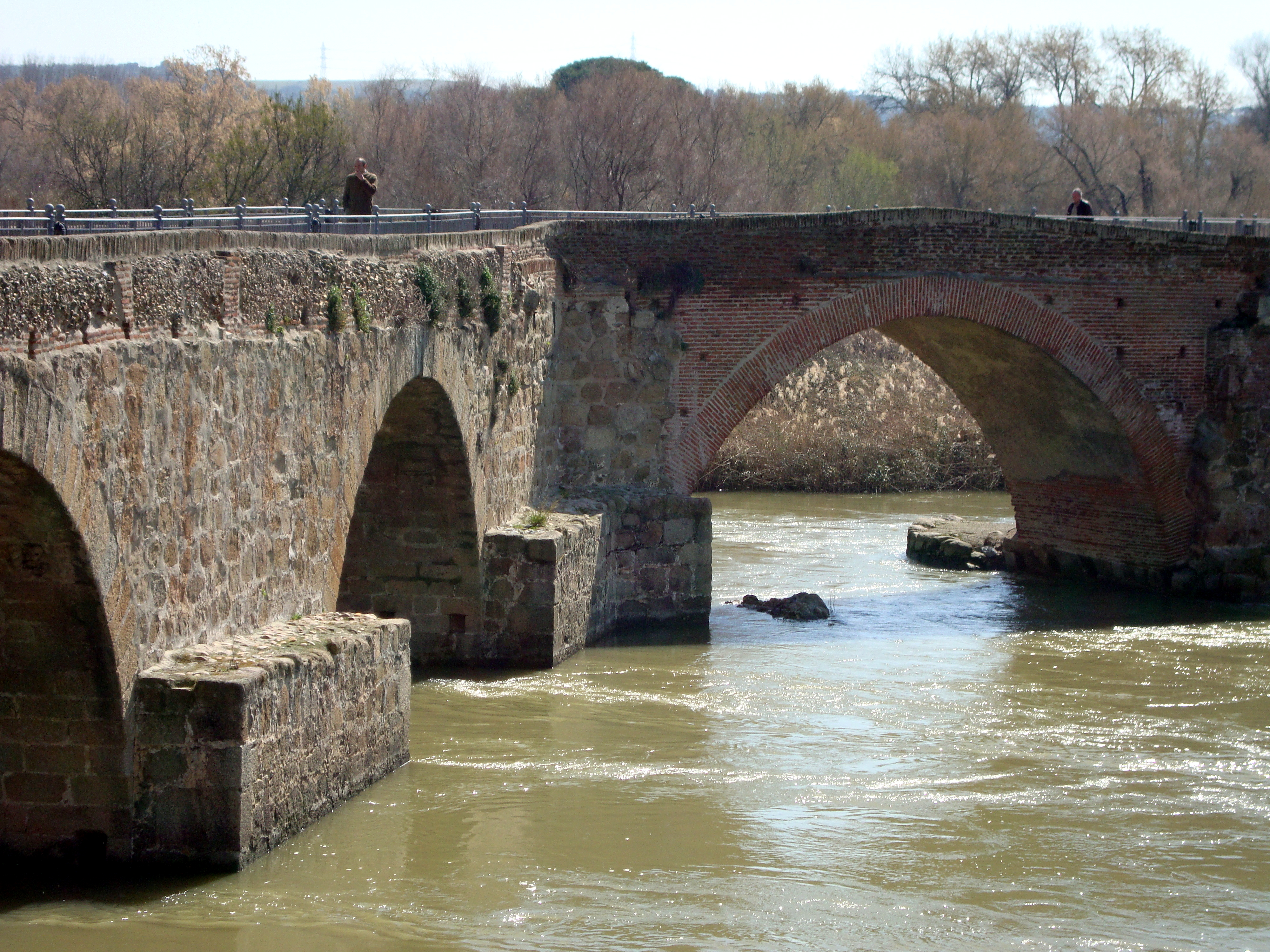 Monastery of Saint Prudence in Talavera de la Reina (Spain).